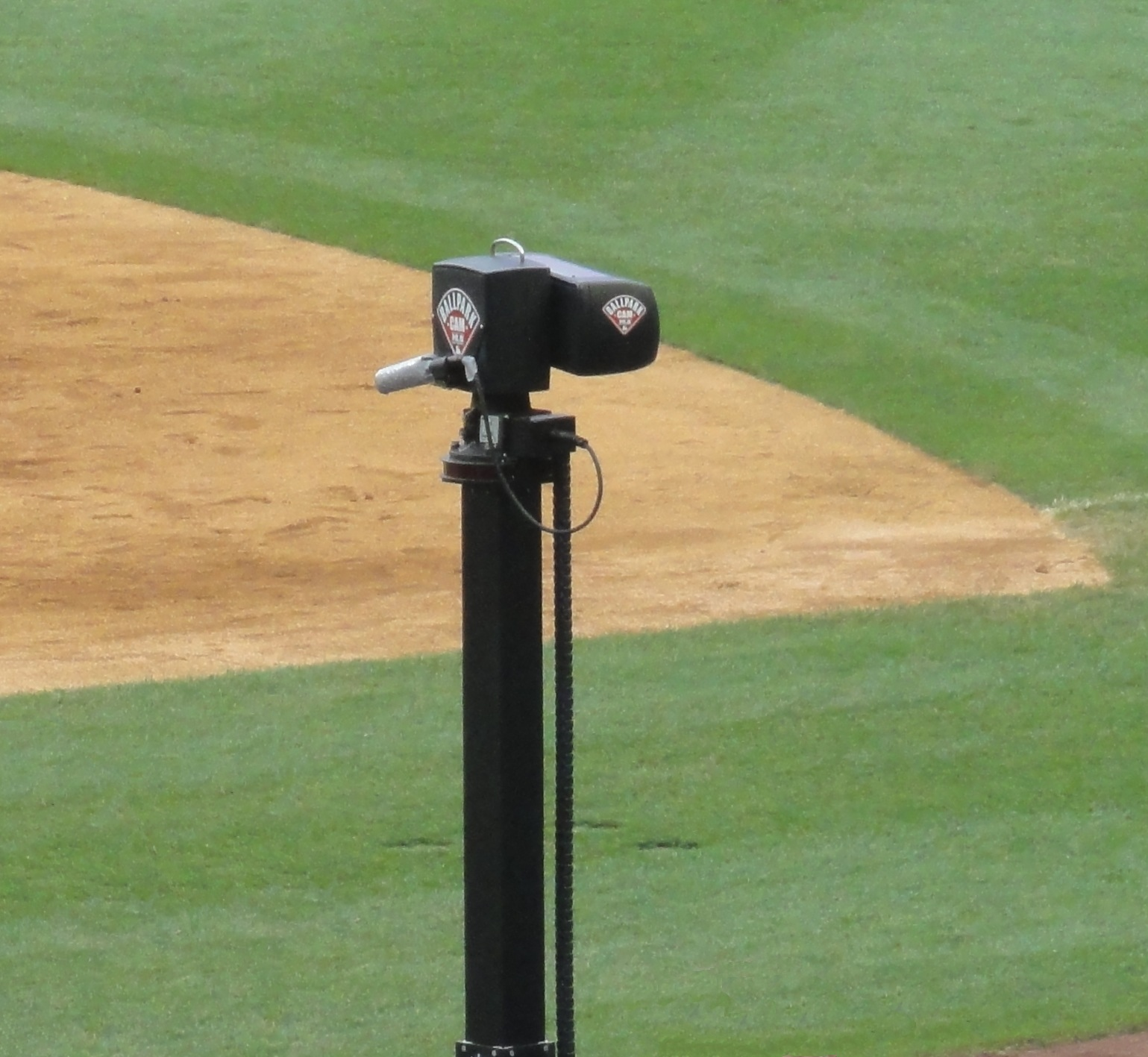 MLB Network Ballpark Cam at Yankee Stadium during batting practice.